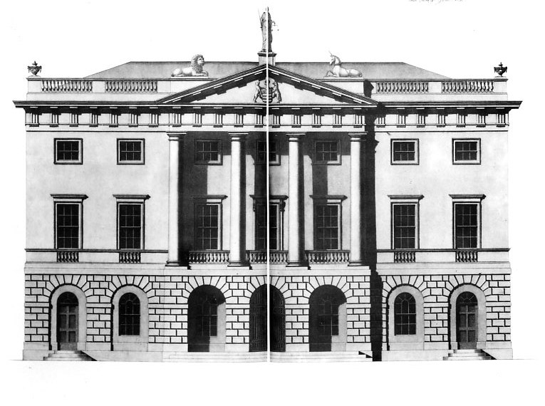 Newark Town Hall Owner of engraving and photograph Auther John Hall